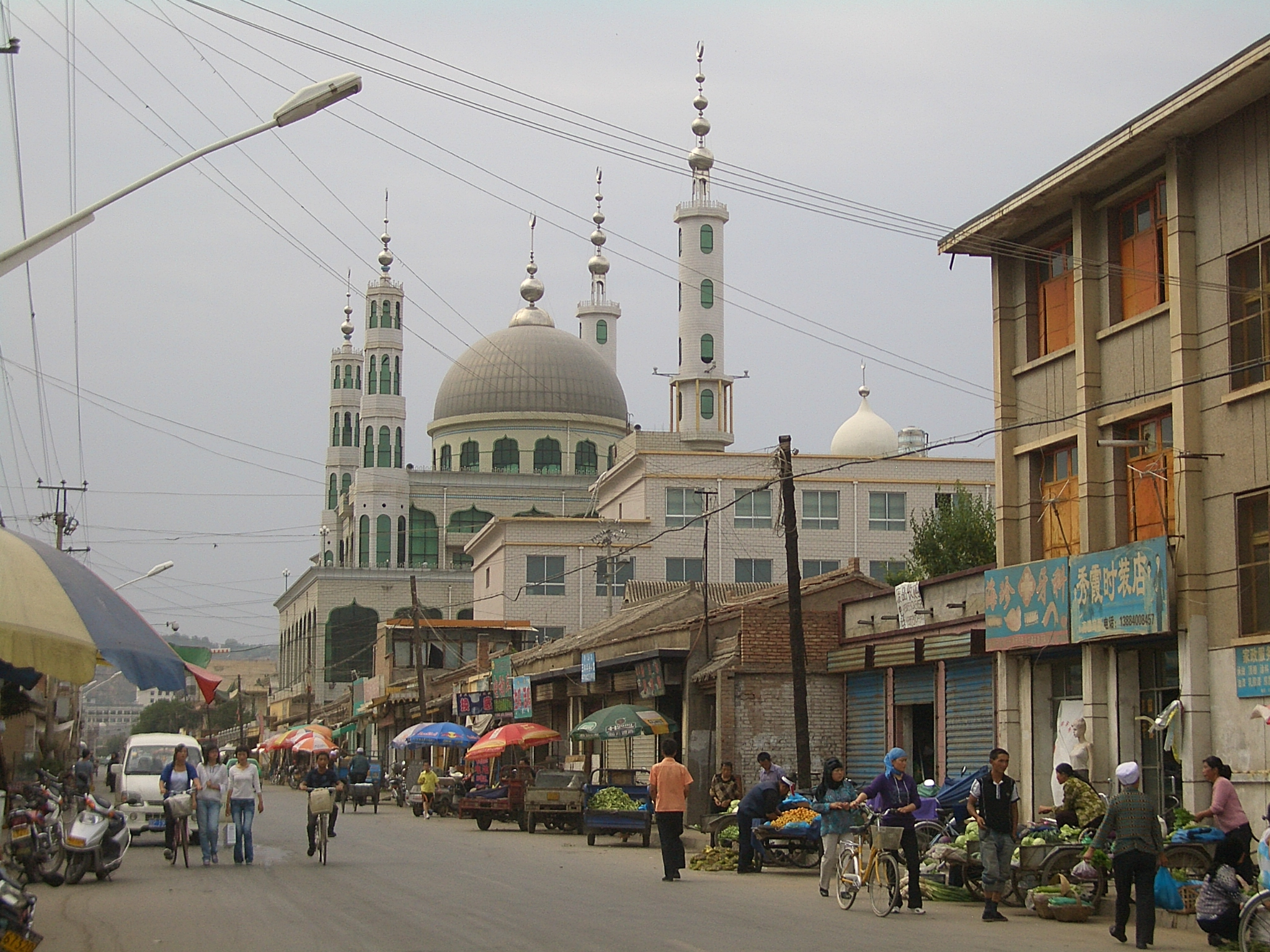 Qianheyan Mosque in Xin Xi Lu (New Western Street) in Linxia City, west of downtown. This is probably the heart of the old Muslim neighborhood, where the Hui people had to reside after they were prohibited to live within the city wall in 1873. There are 4 large mosques - Lao Hua, Xin Hua, Tie Jia, and Qianheyan - in that street.